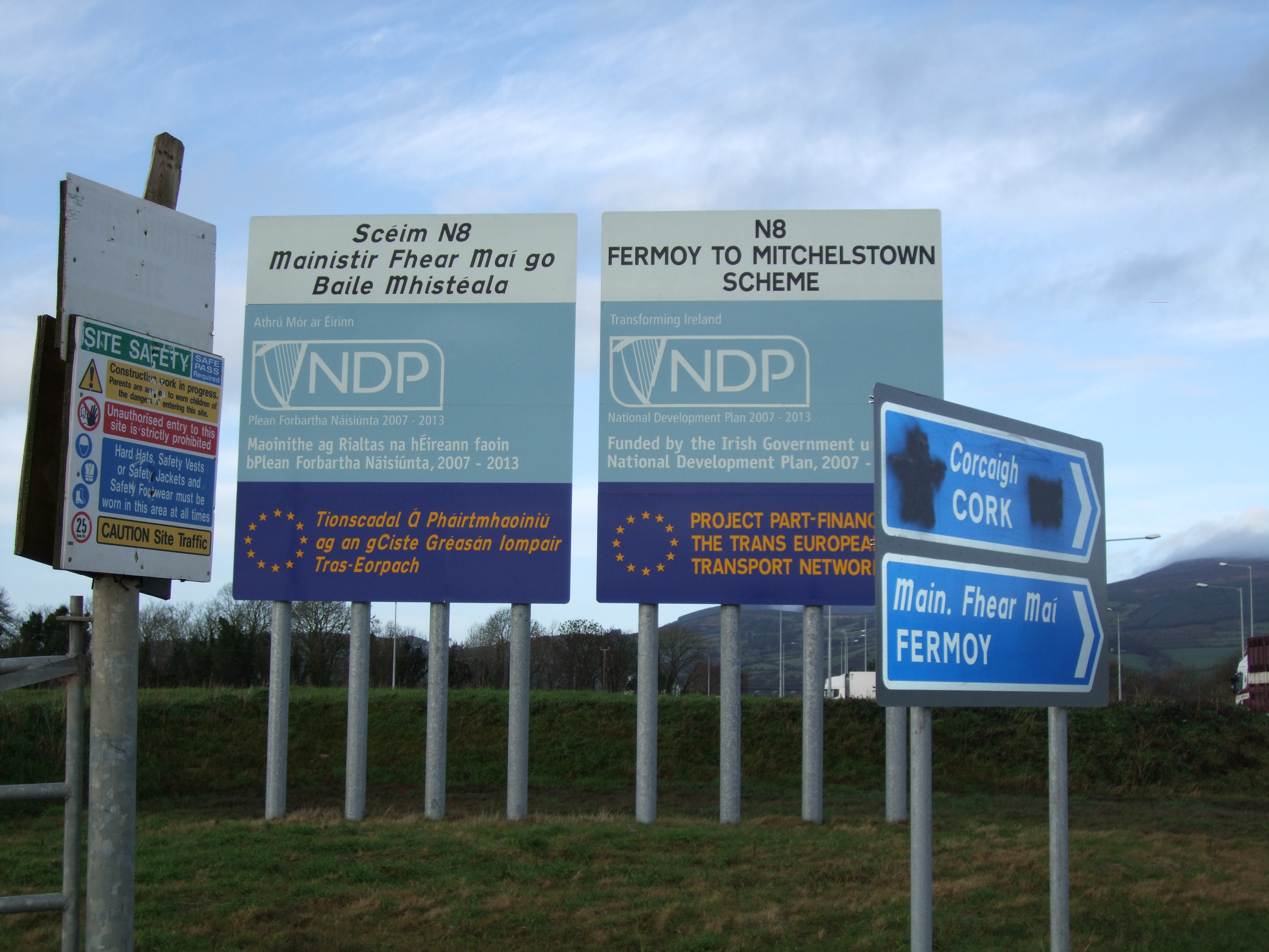 Scheme signage for the M8 Mitchelstown to Fermoy section at juncion 12